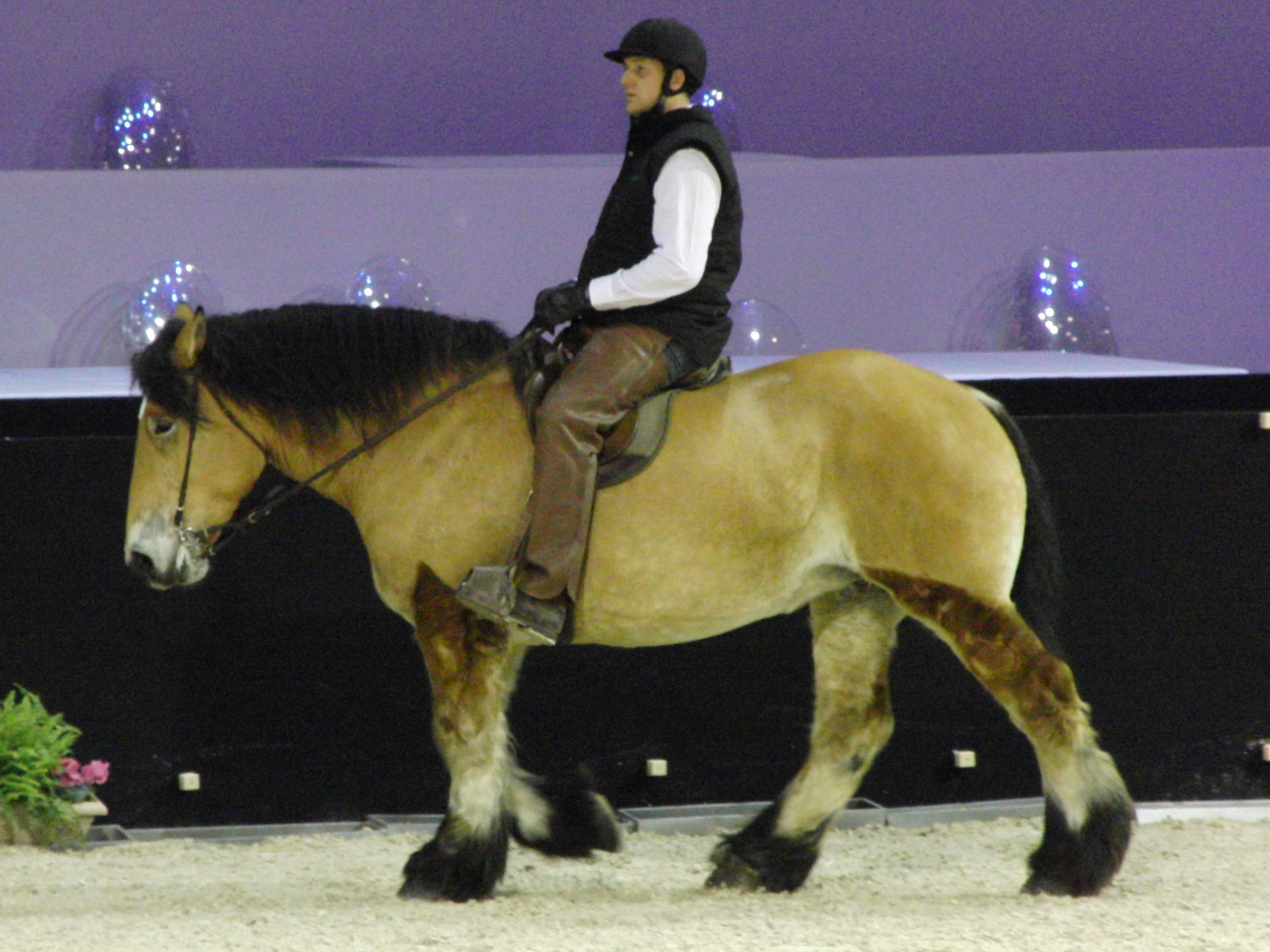 Trait du Nord horse - Paris' Cup Grand Prix de Paris du Cheval de Trait - Salon du cheval de Paris 2009, France